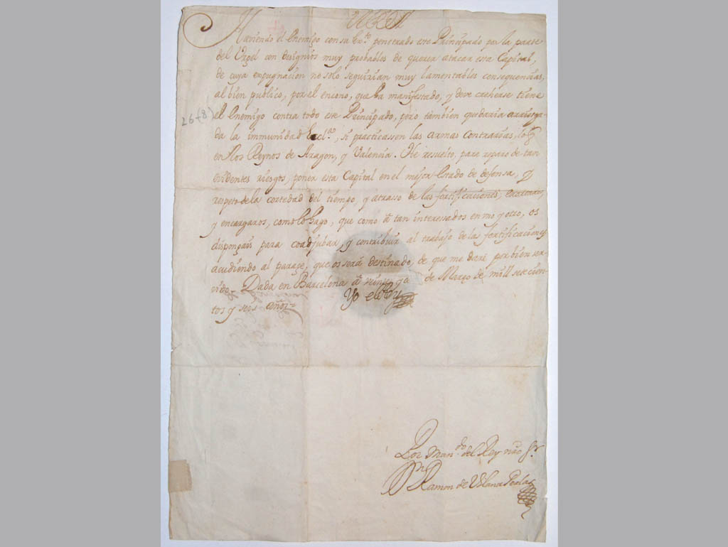 Demand in the community of Santa Maria del Pi plans to participate in the reinforcement of the walls of the city. 1706 .